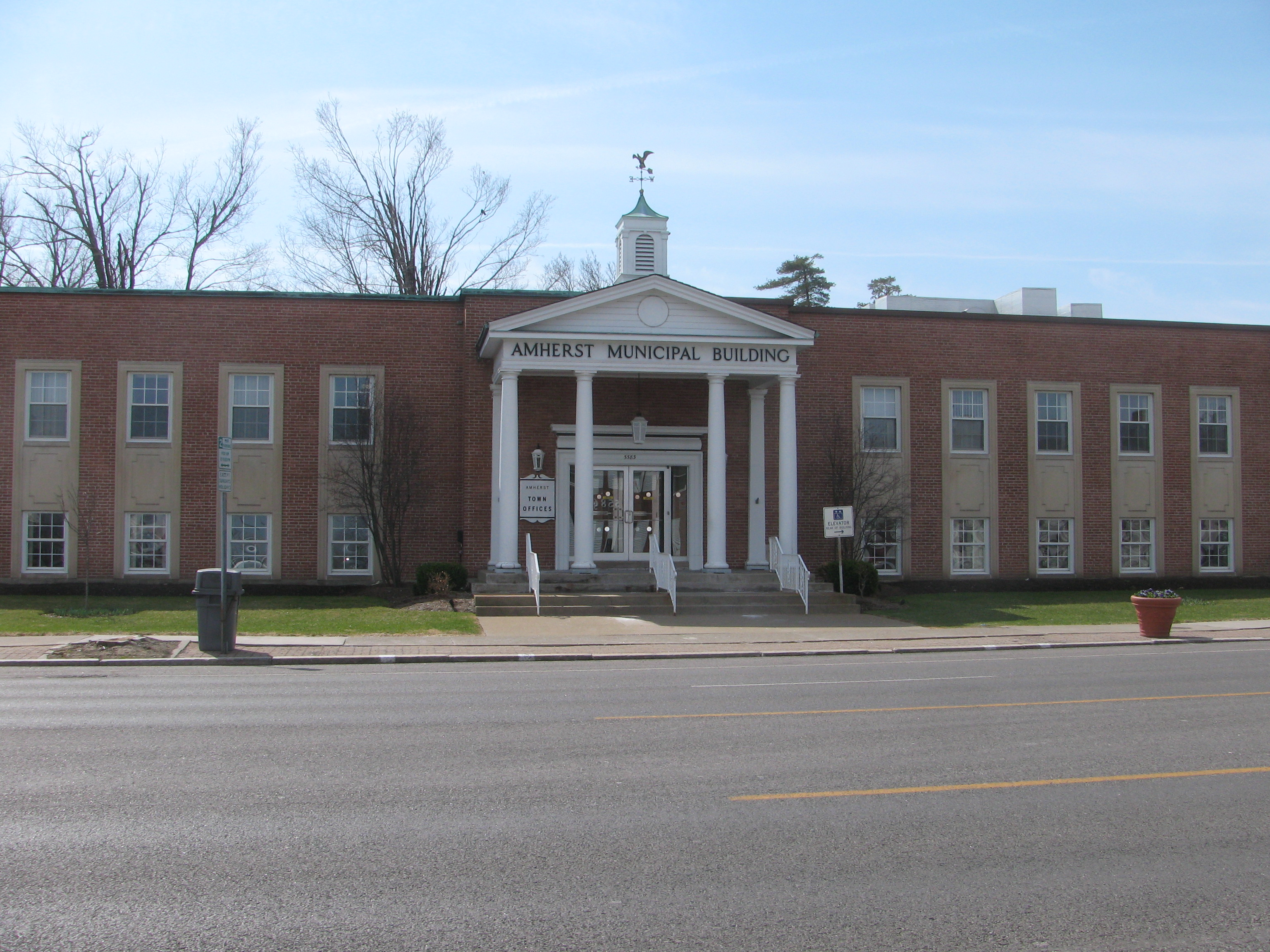 Amherst, New York Municipal Building (Town Hall)